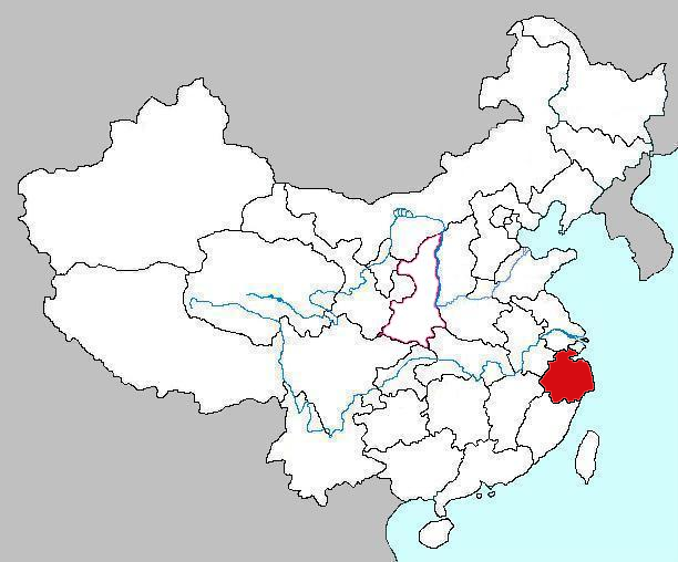 Maps of Zhejiang Province of China